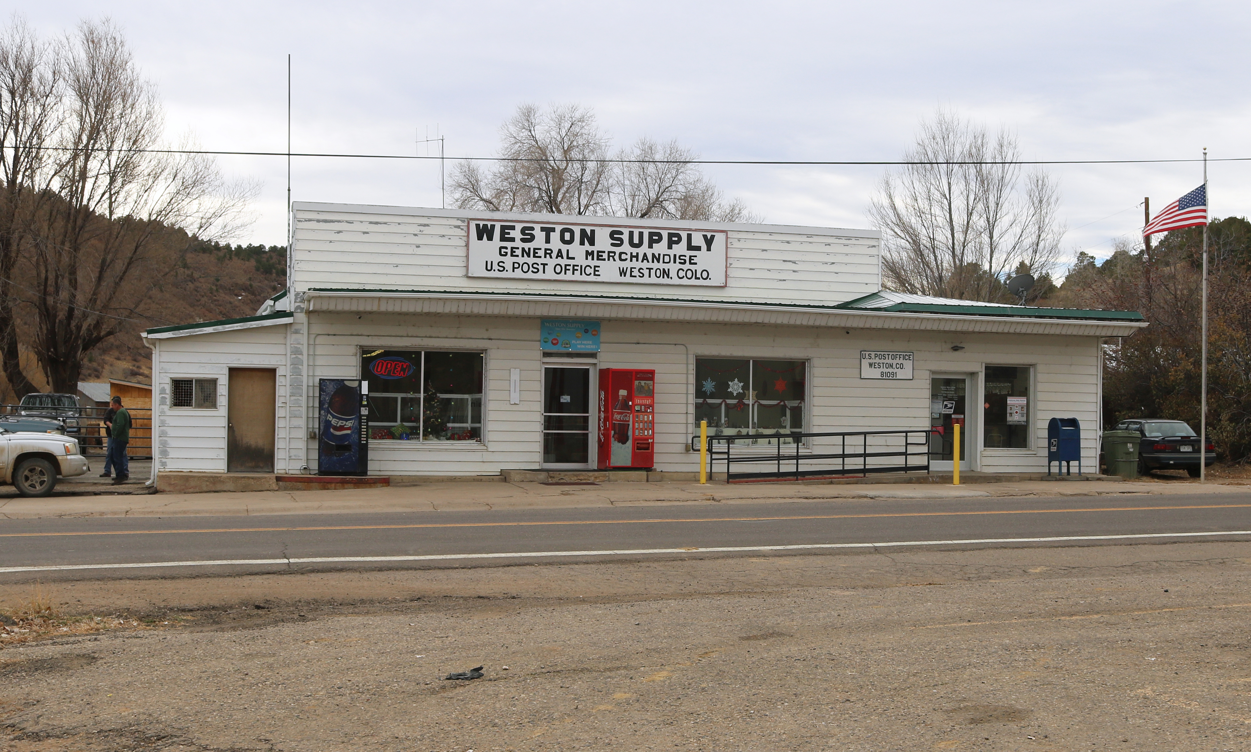 Weston Supply, located at 16920 CO-12, in Weston, Colorado. The general store also includes the community's post office.